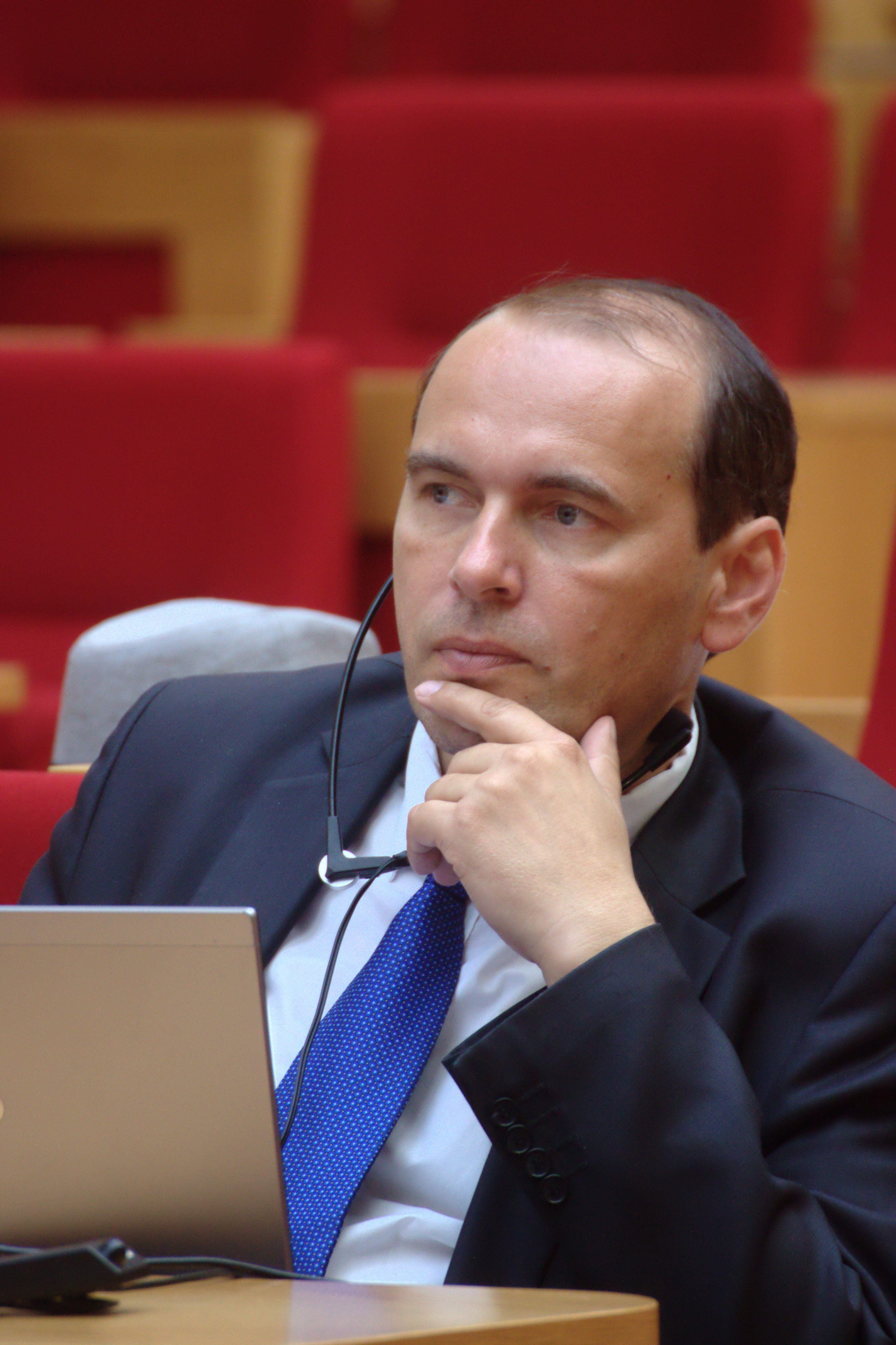 Libor Michálek during the whistleblowing conference in Prague City Hall Personality rights warningAlthough this work is freely licensed or in the public domain, the person(s) shown may have rights that legally restrict certain re-uses unless those depicted consent to such uses. In these cases, a model release or other evidence of consent could protect you from infringement claims.